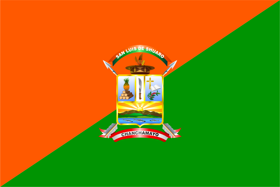 flag of the district of San Luis de Shuaro - Province of Chanchamayo - Junín Region